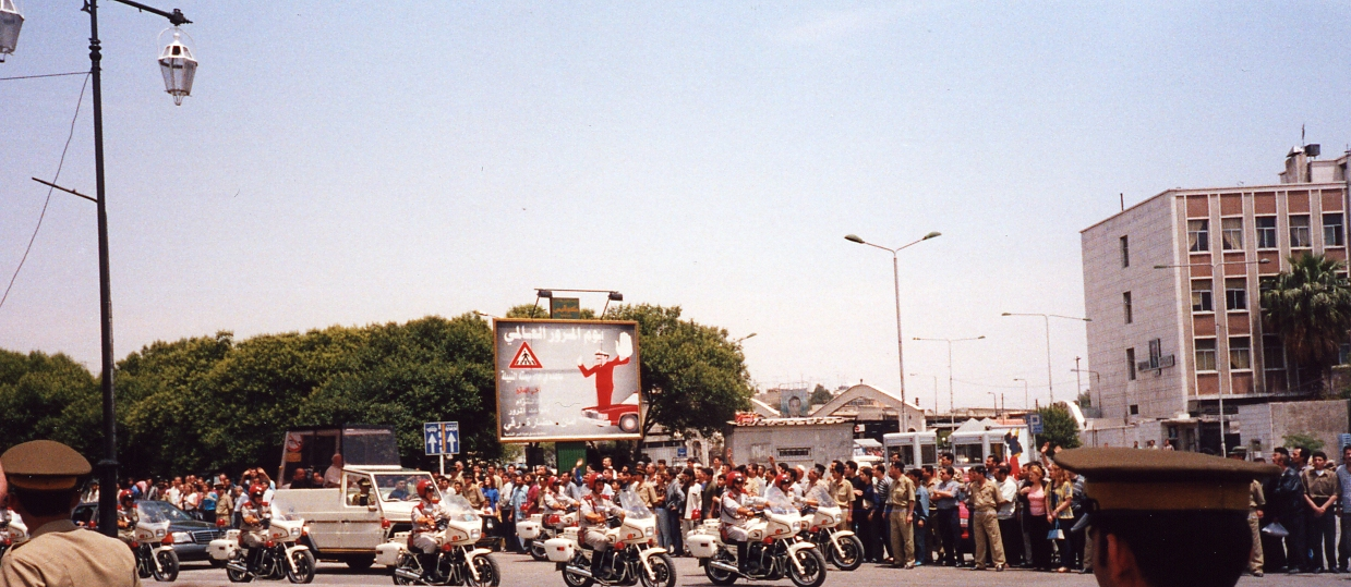 Pope John Paul II, after a public meeting in Damascus, Syria.